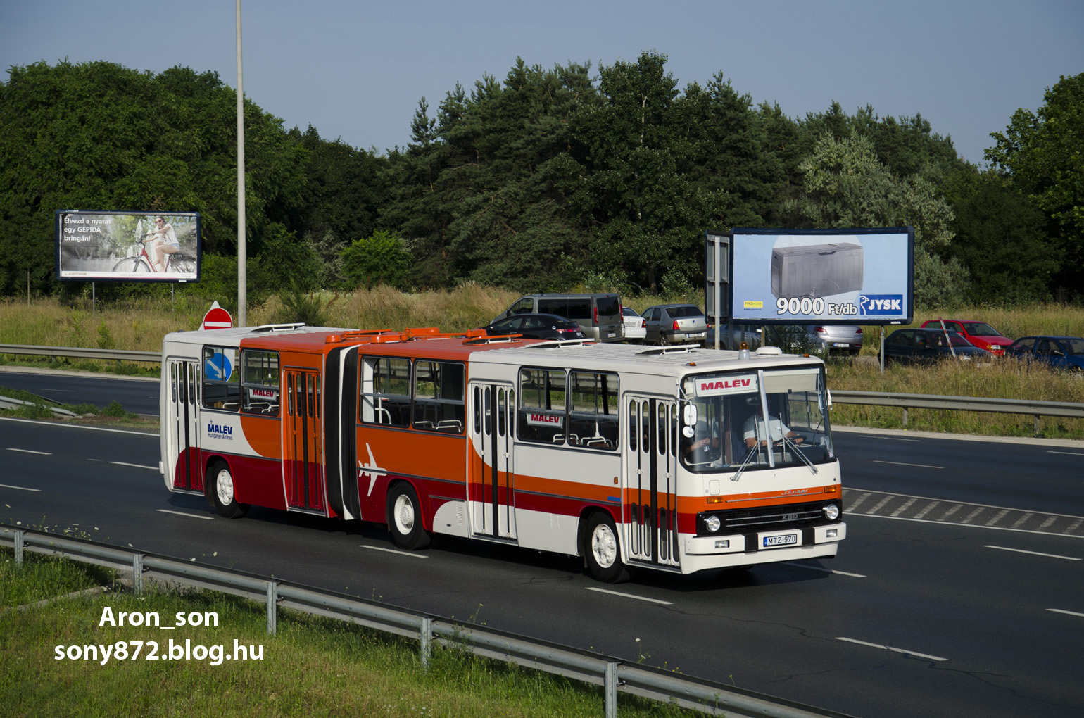 Historical Malév Ikarus 280.15 bus in Budapest